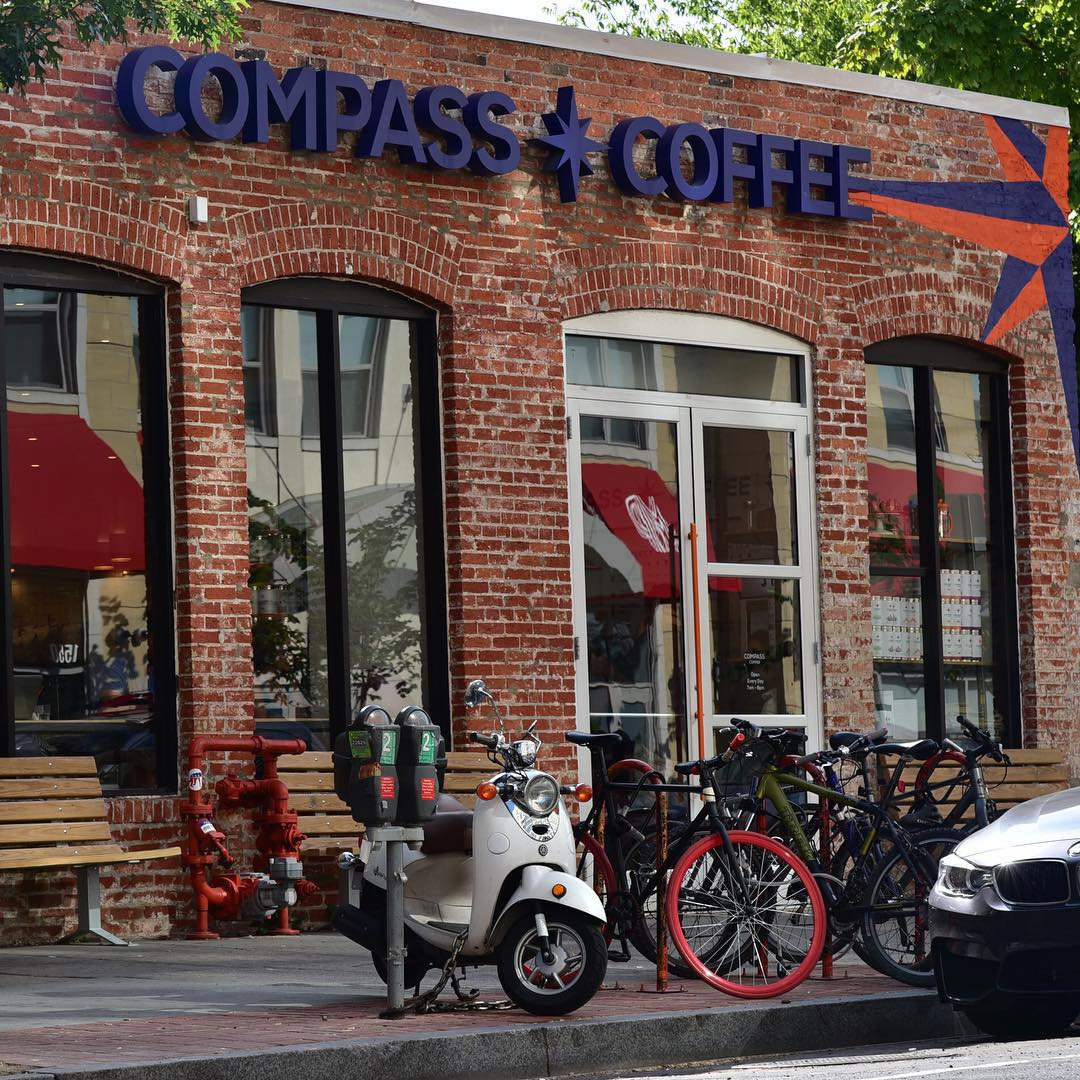 The original Compass Coffee location in Shaw, Washington, DC